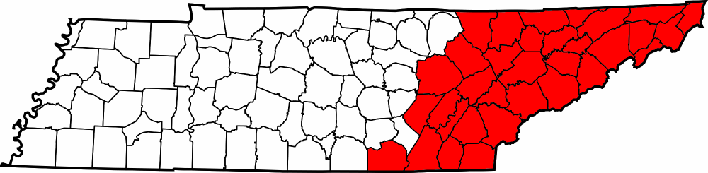 Map showing the counties of East Tennessee, United States.